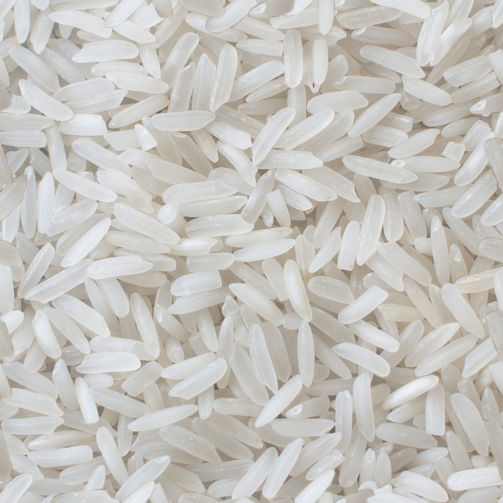 A close up of uncooked, polished Thai jasmine rice. Retouched version of File:Thai jasmine rice uncooked.jpg to obtain a periodic texture.